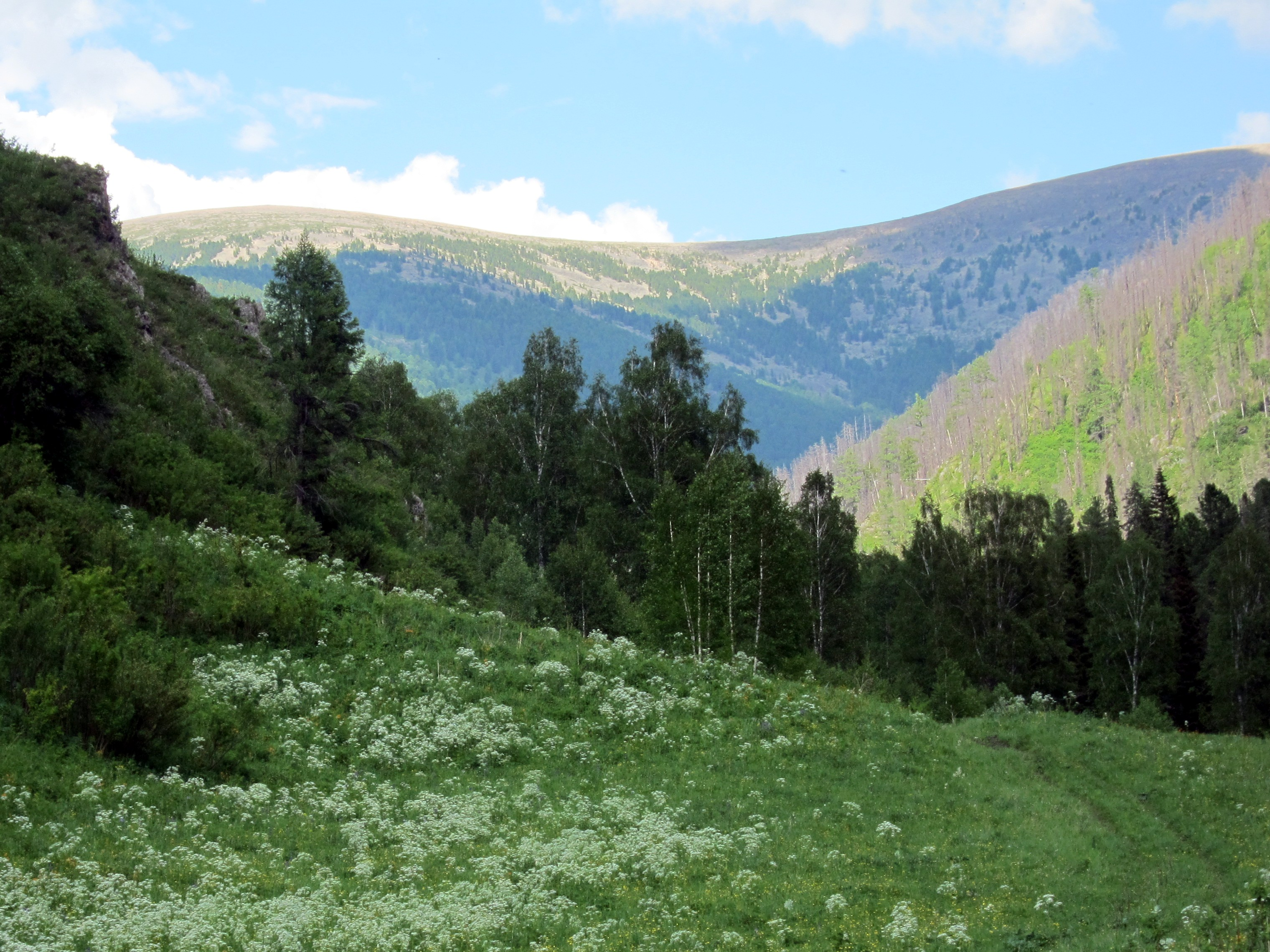 View on Tamanyol Pass in Chemalsky District of the Altai Republic